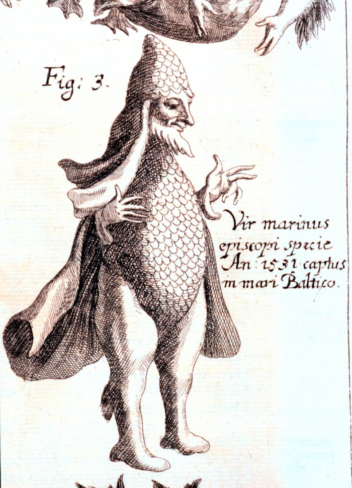 A relatively benign merman complete with scales caught in the Baltic Sea in 1531 according to Johann Zahn's sources. In: "Specula physico- mathematico-historica notabilium ac mirabilium sciendorum" by Johann Zahn. published 1696 at Augsburg, Germany. Library Call Number Q155 .Z33 1696. The caption reads: "Vir marinus episcopi specie An: 1531 captus im mari Baltico." Image ID: libr0081, Treasures of the NOAA Library Collection Photographer: Archival Photograph by Mr. Sean Linehan, NOS, NGS National Oceanic and Atmospheric Adminstration (NOAA), United States of America